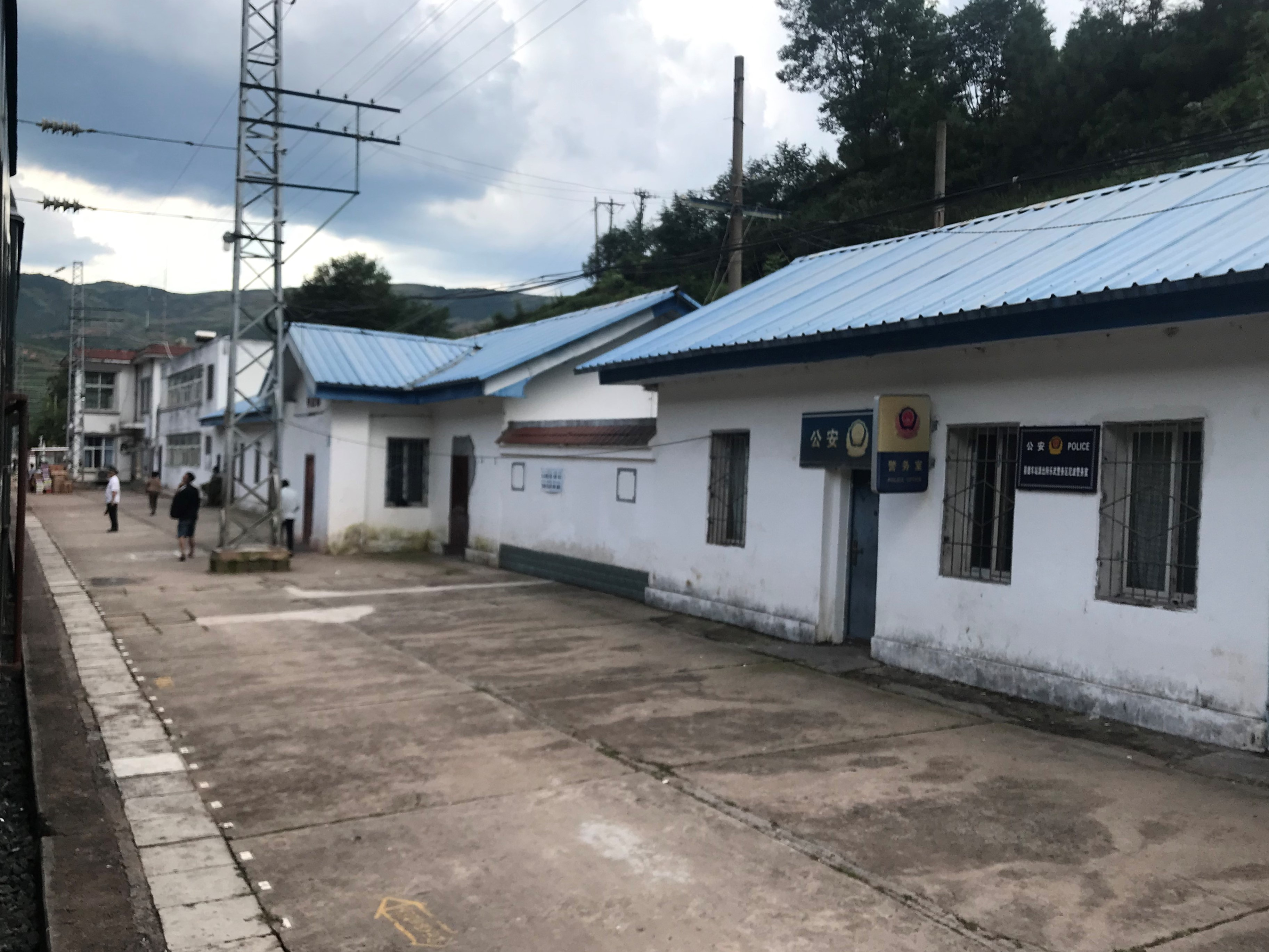 201908 Platform of Nibo Station